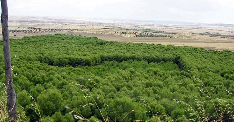 Field of Getafe, Getafe, (Madrid), Spain Author: Miguel303xm Date: June 26th, 2004 Place: Field of Getafe, Getafe, Madrid, Spain